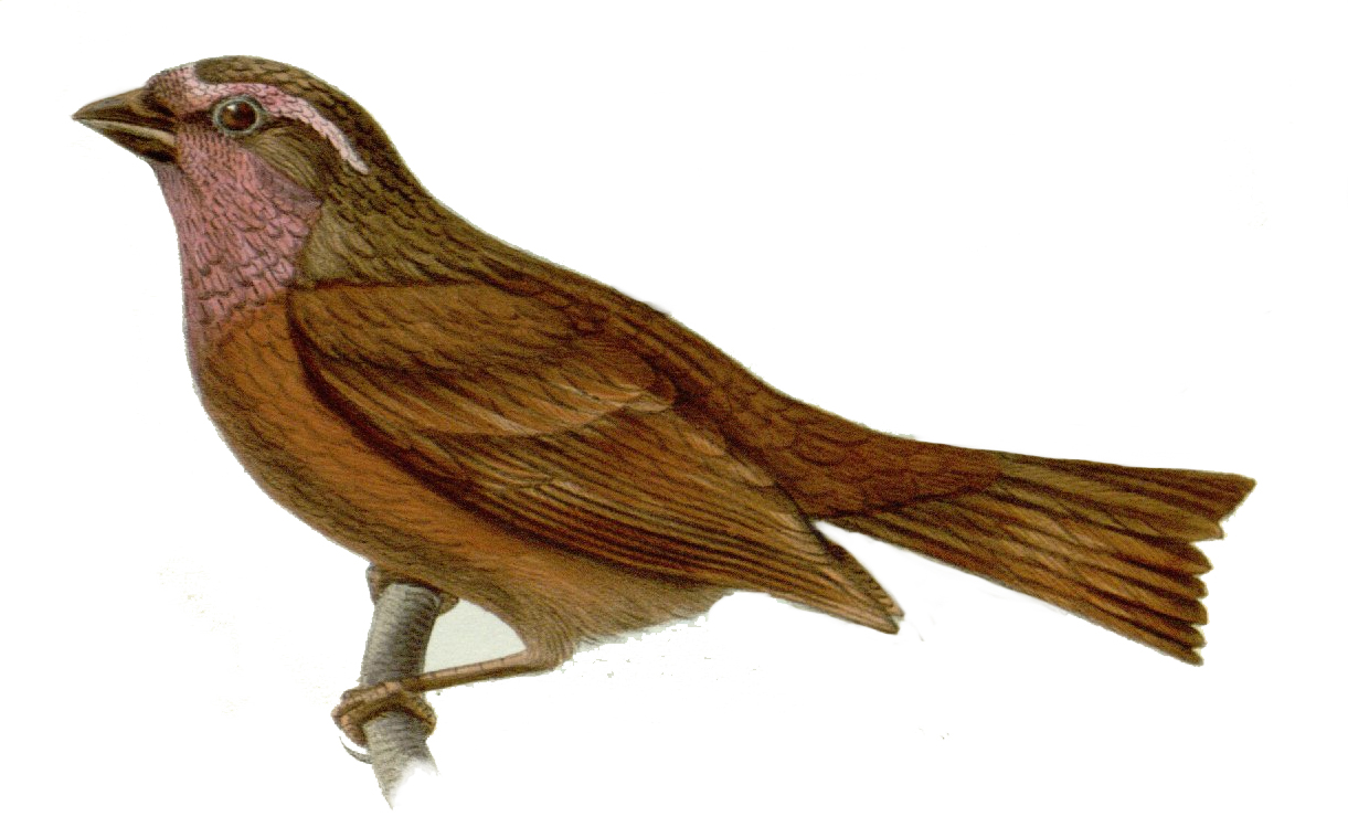 Carpodacus edwardsii